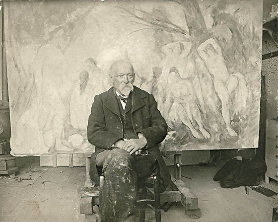 Émile Bernard: Paul Cézanne in his studio at Les Lauves, 1904